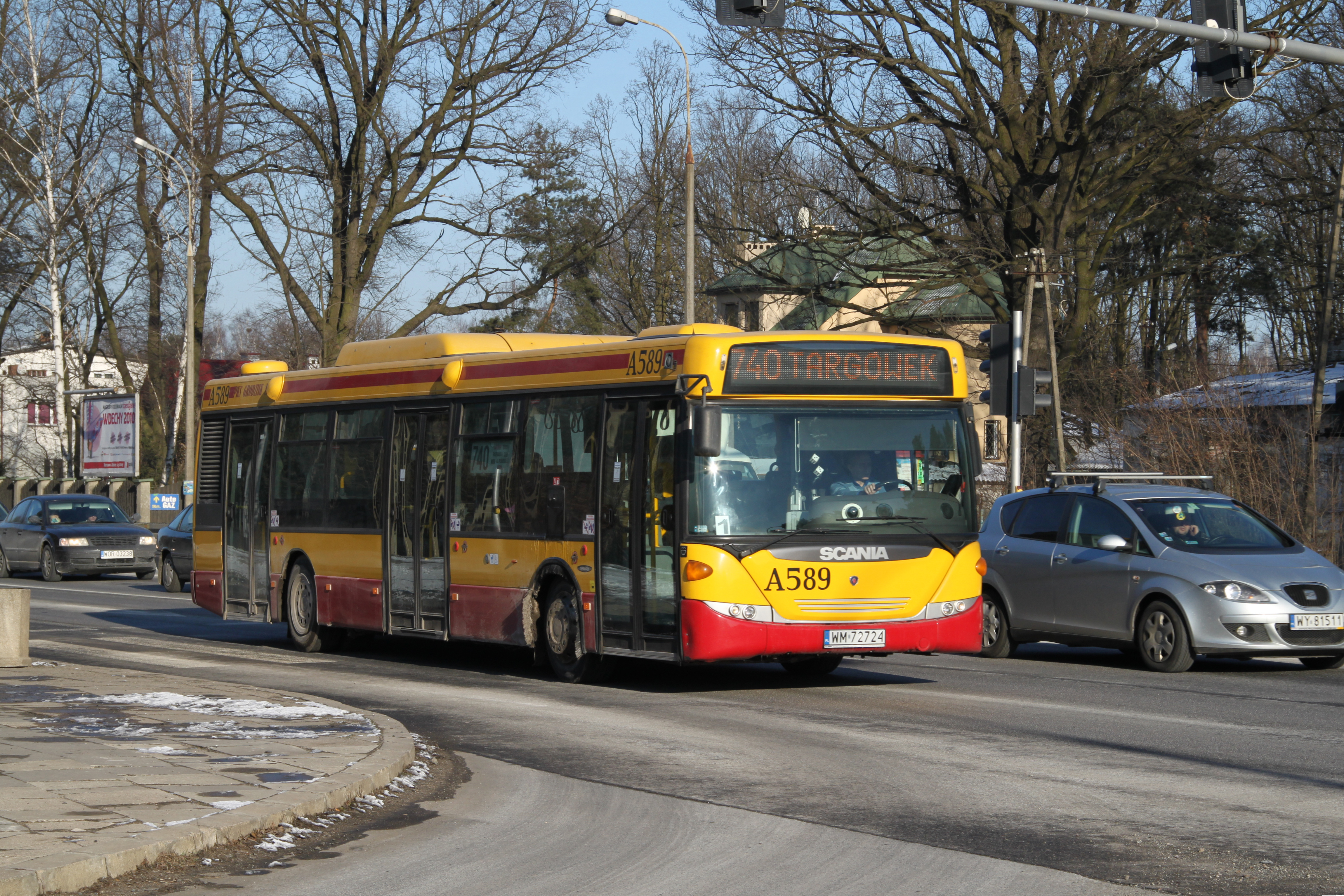 Scania CN270UB 4x2 EB bus (#A589, built in 2008, PKS Grodzisk Mazowiecki operator) on line 740 in Marki, Poland.